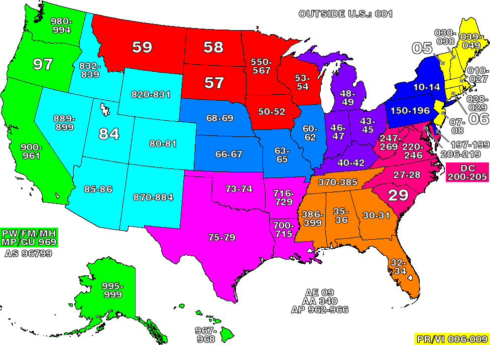 This map of the United States divides the country into ZIP code zones. All states with a common colour use ZIP codes starting with the same digit. Where only two digits are used, the allocation reflects all existing ZIP codes starting with those two digits.